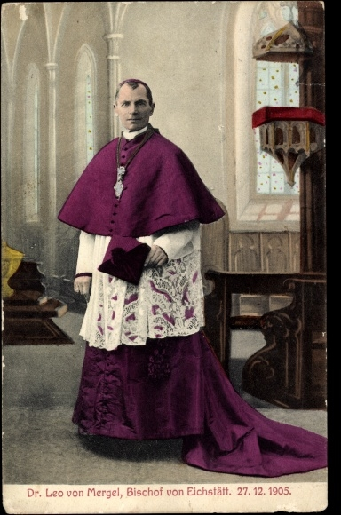 The bishop of the Roman Catholic Diocese of Eichstätt: Dr. Leo Mergel (1847-1932)